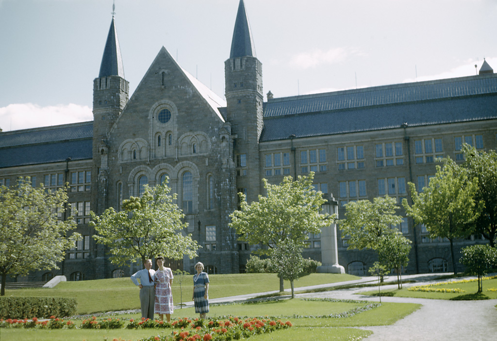 Gustaf, Carin and Lilly in front of the The Norwegian Institute of Technology in Trondheim in Norway. Gustaf, Carin och Lilly framför Tekniska högskolan (Norges tekniske høgskole) i Trondheim i Norge. Location: Trondheim, Sør-Trøndelag fylke (county), Norway Photograph by: Fredrik Bruno Date: 15.07.1948 Format: Colour slide Persistent URL: Read more about the photo database (in english)